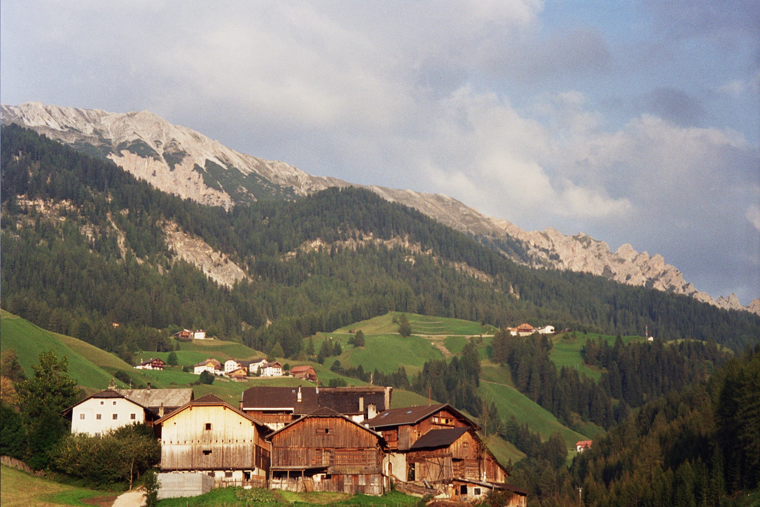 ladinian settlements in Wengen. Lunz in foreground, Frenes in the middle ground, to the right Colz. Background Pares mountain.